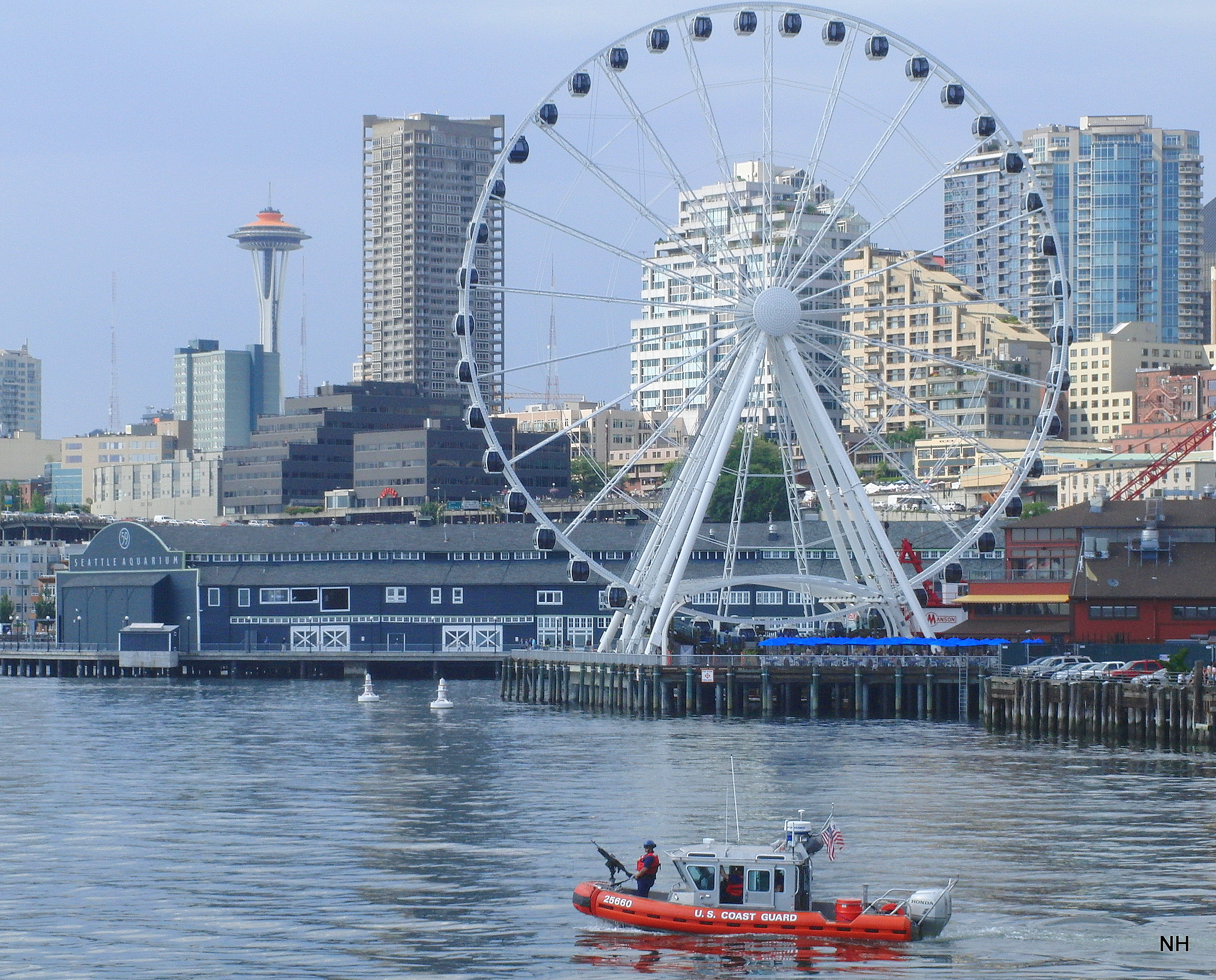 Seattle Great Wheel + Space Needle + Coast Guard Patrol Boat